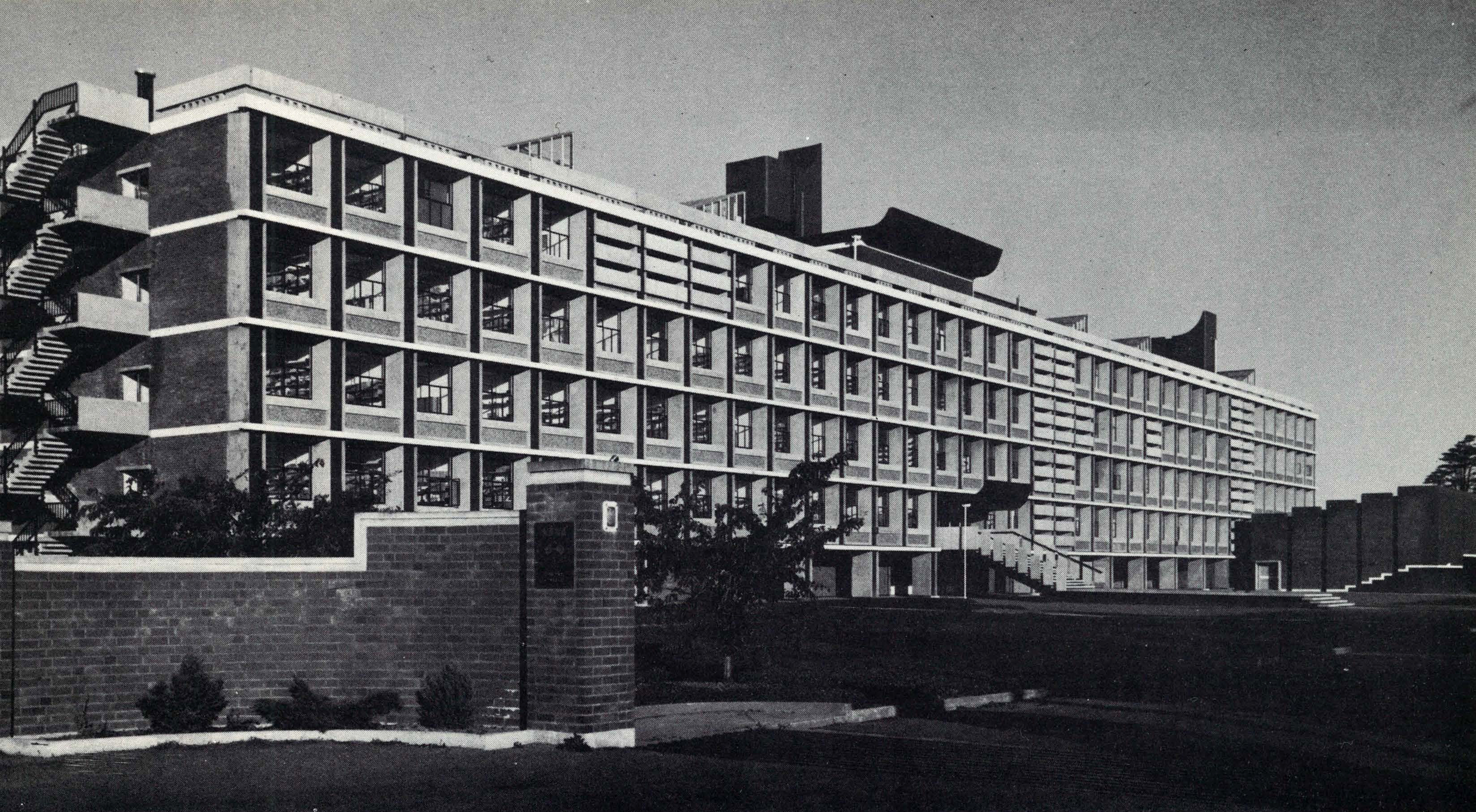 The west wall of the Hilgendorf Wing, Lincoln University, New Zealand, from the College Gates. The 110,000 sq. ft. building was designed by Trengrove, Trengrove and Marshall and built by M. L. Paynter and Company Ltd., 1967.